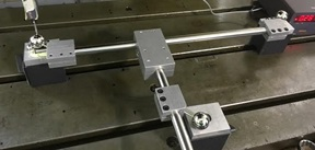 Figure 1.3 Set up: Bars, Balls and the Probe